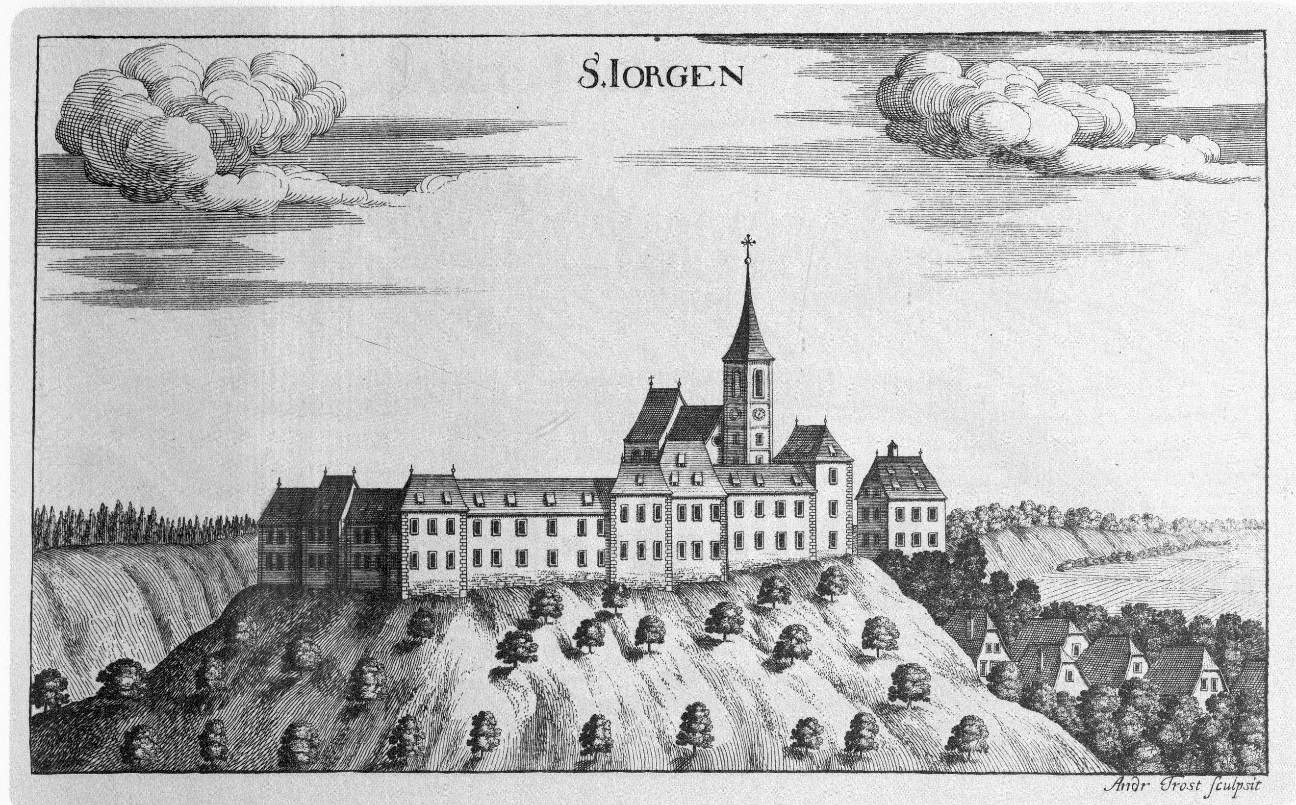 The castle of Sankt Georgen an der Stiefing, engraving by Georg Matthäus Vischer.